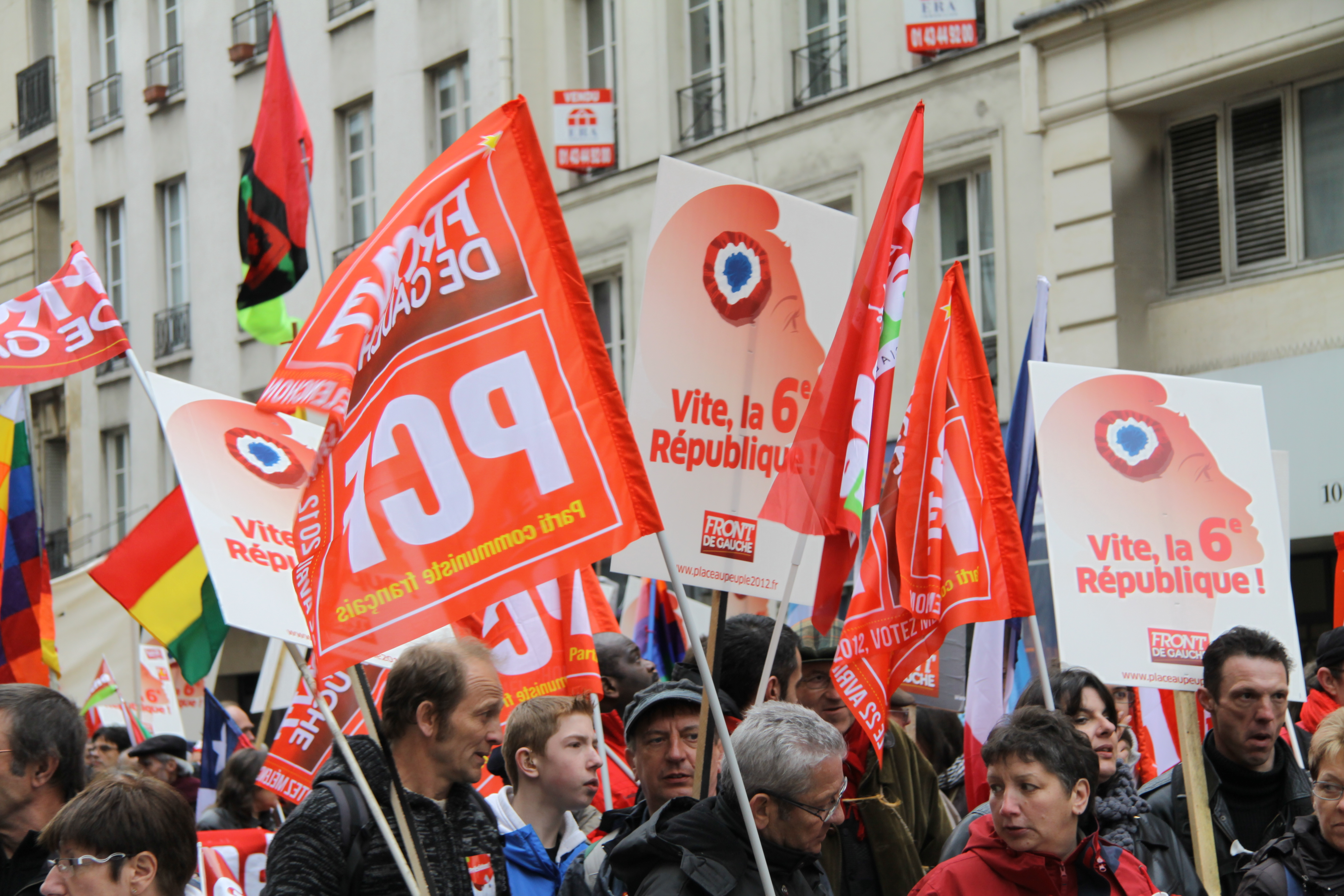 French Communist Party's meeting for the 2012 French presidential election, Paris, France